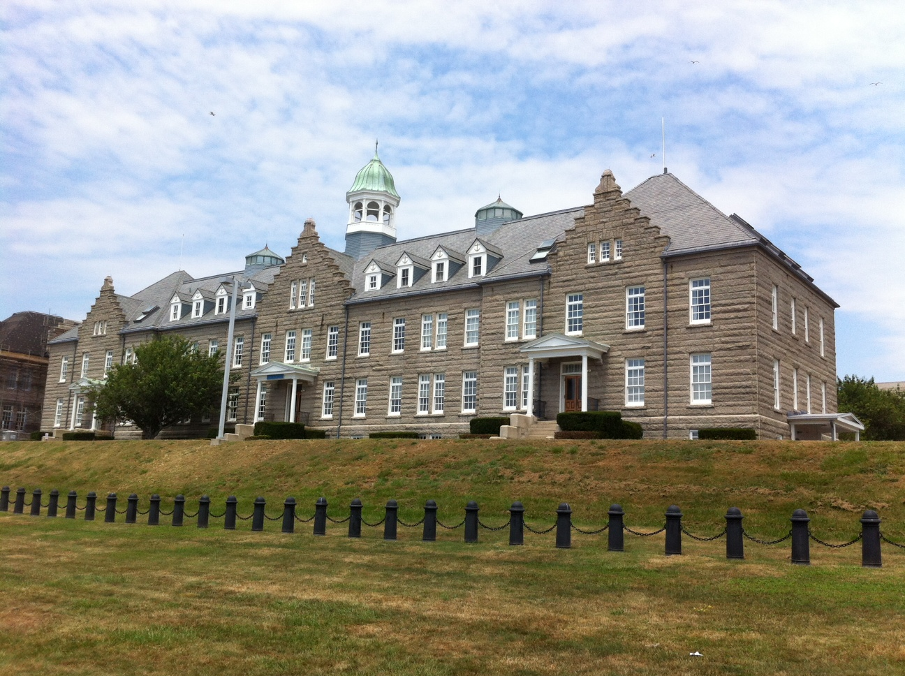 Luce Hall, Building 1, Luce Avenue, Naval Station Newport, Rhode Island.